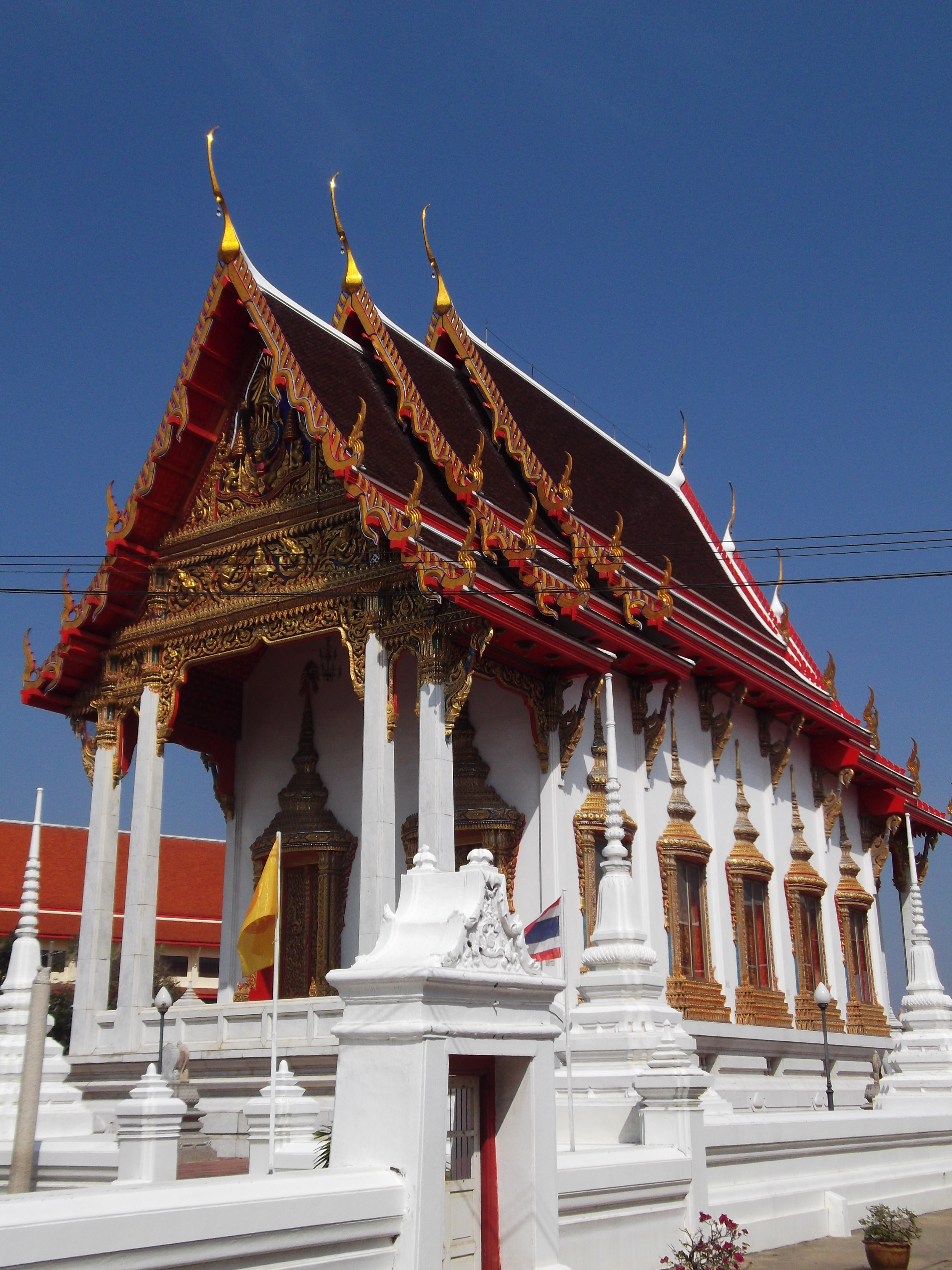 วัดรัชฎาธิษฐาน